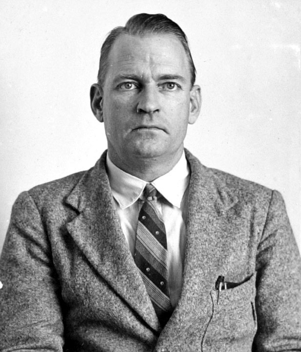 Passport photograph of Dr FHS Roberts (1901-1972), entomologist and parasitologist, prior to departure abroad in 1938 to study the control of parasitic diseases in livestock. He was appointed veterinary entomologist with the Queensland Department of Agriculture and Stock in 1930, based at the Animal Health Station, Yeerongpilly from 1933.